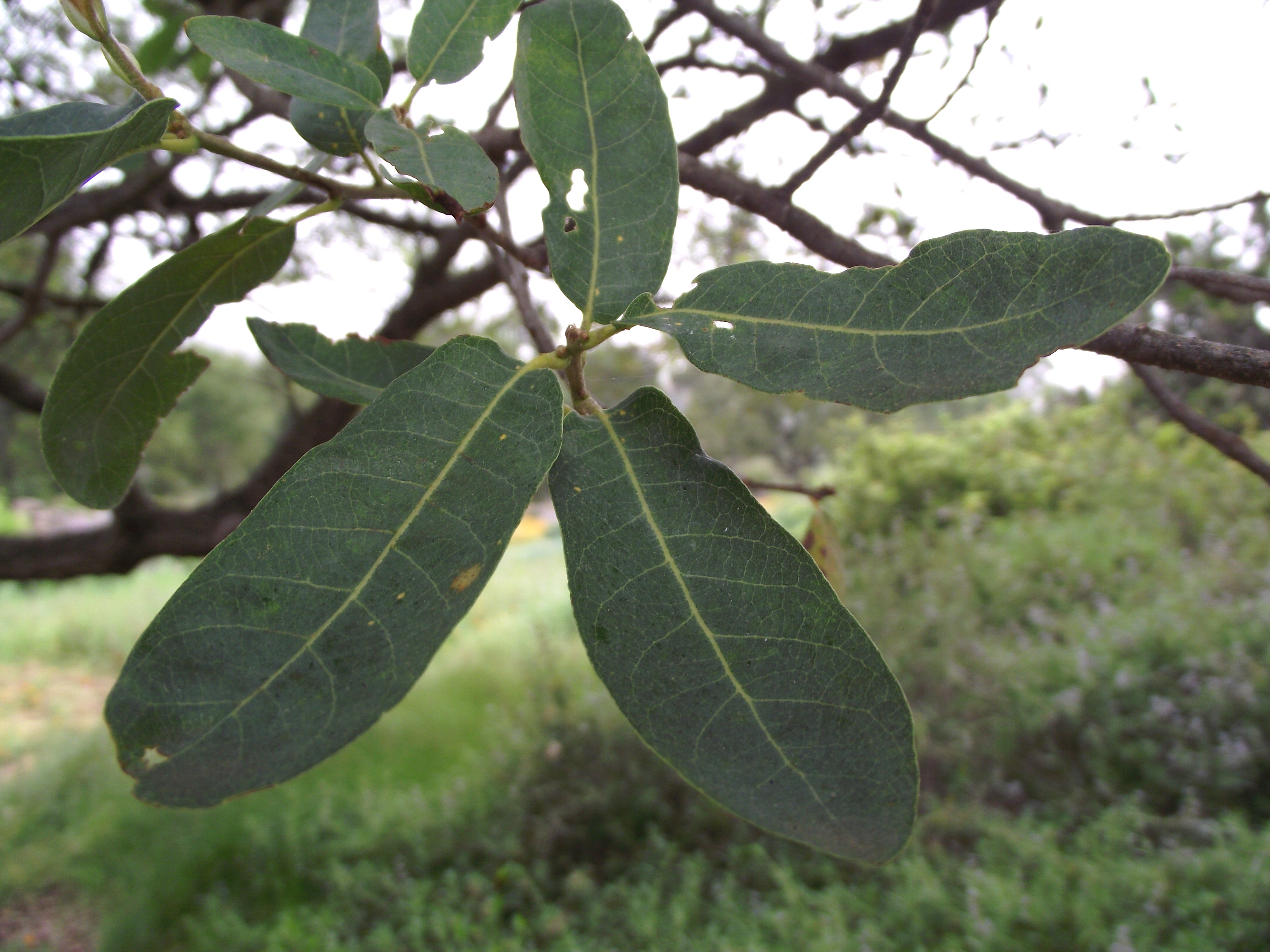 Quercus engelmannii — Engelmann oak; closeup of leaves. At the Santa Barbara Botanic Garden, in Santa Barbara, California. Identified by sign.